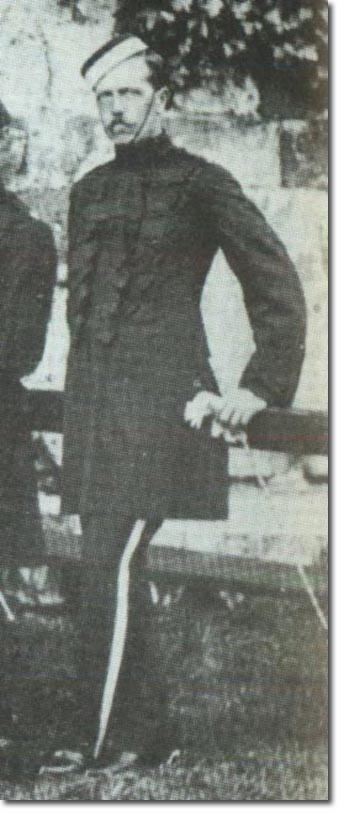 Edwin Wilfred Stanyforth (Born Greenwood), taken in 1893